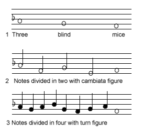 illustration of musical division